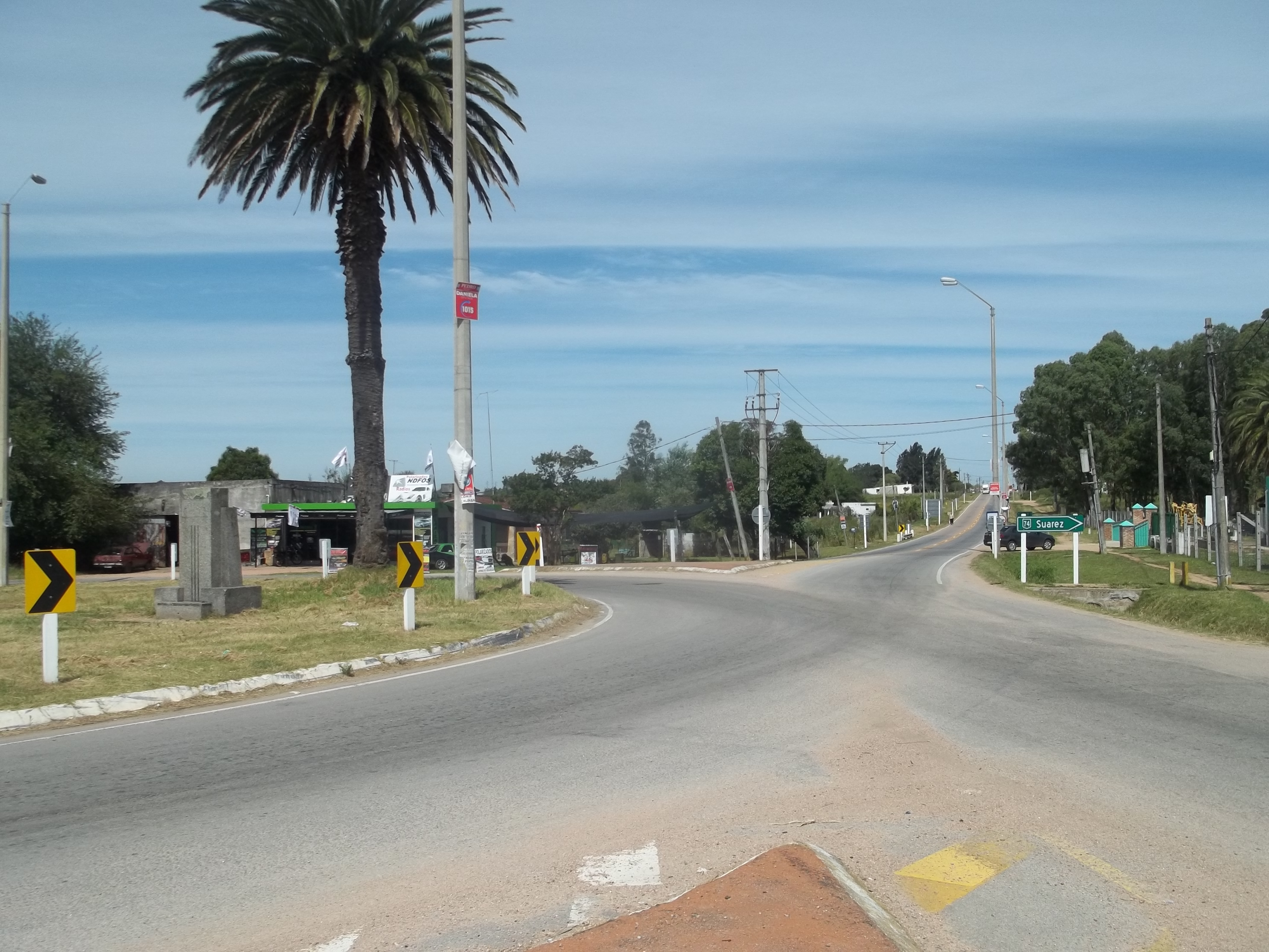 Rotonda que comunica la Ruta Departamental 74 con las Rutas Nacionales 7 y 6 .